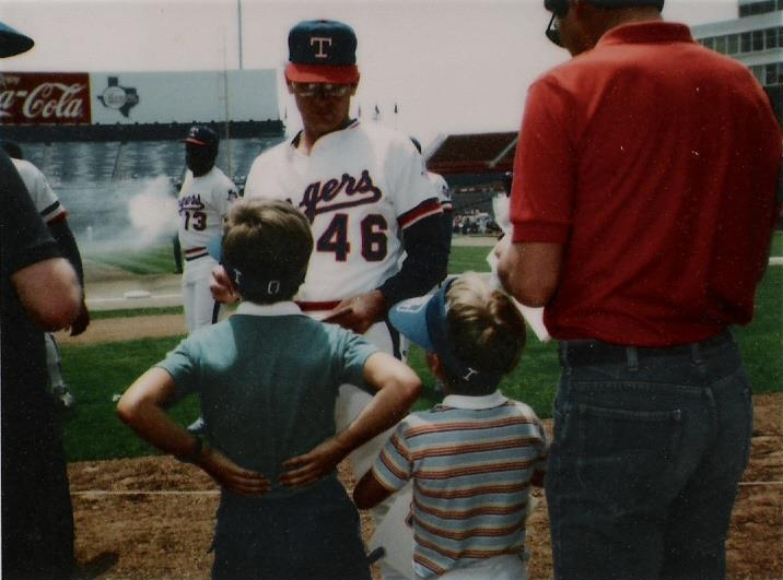 Burt Hooton at Texas Rangers/Eckerd Drugs Camera Day at Arlington Stadium, Arlington, Texas Sunday, April 28, 1985.